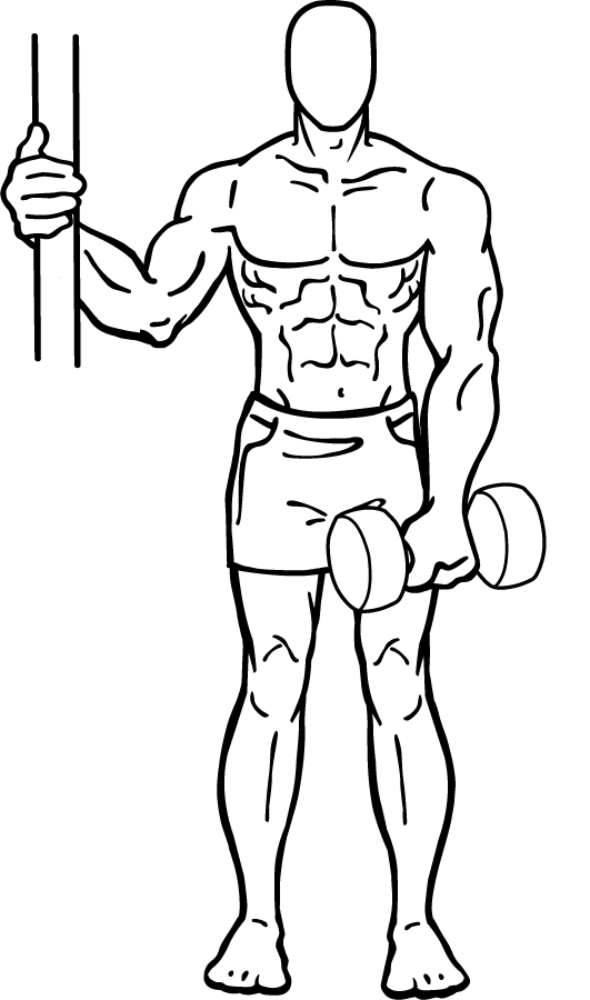 an exercise of shoulder